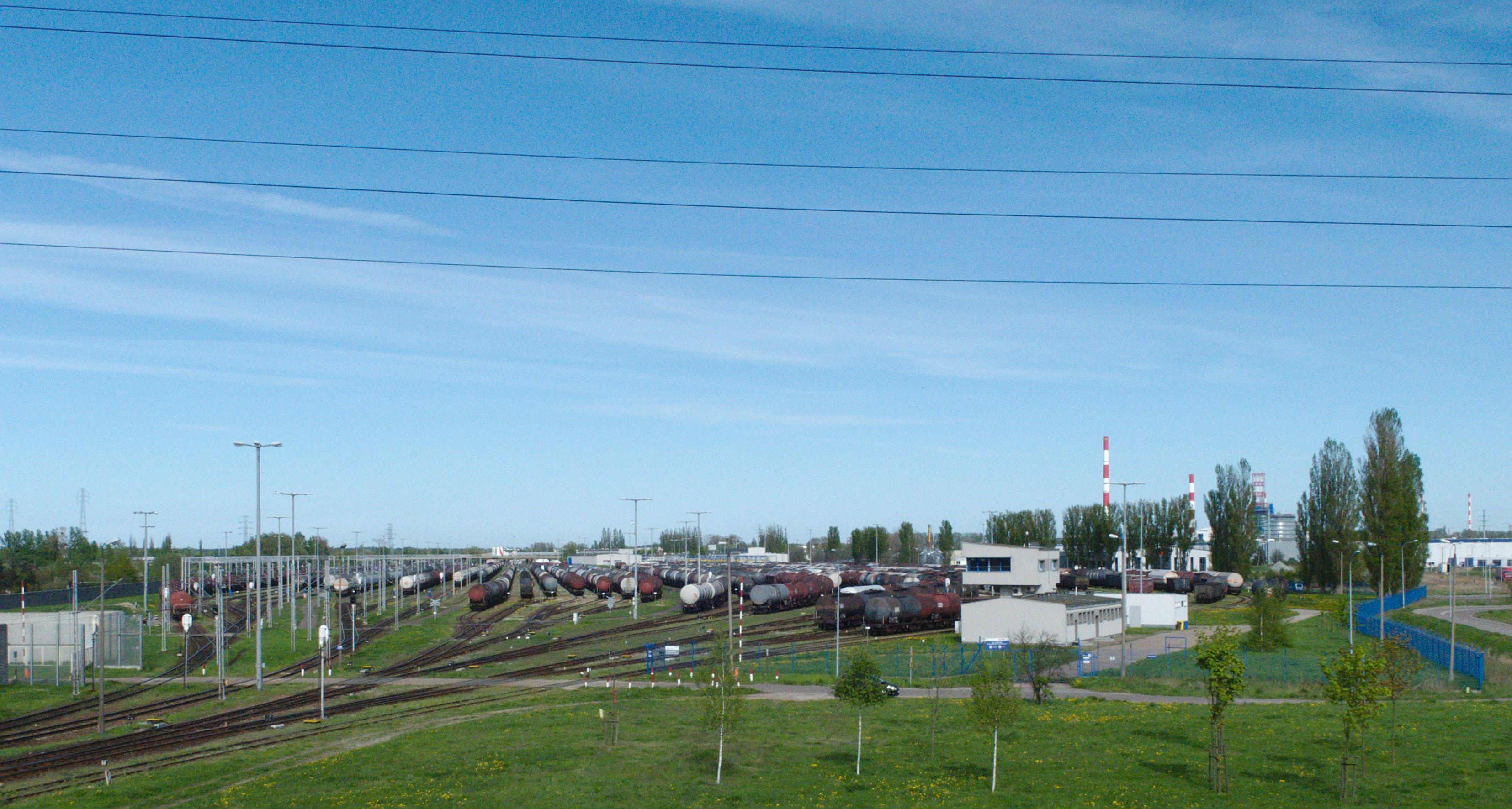 Siding belonging to Lotos Kolej in Gdańsk, Poland. It is also a tax warehouse that nearby rafinery uses.